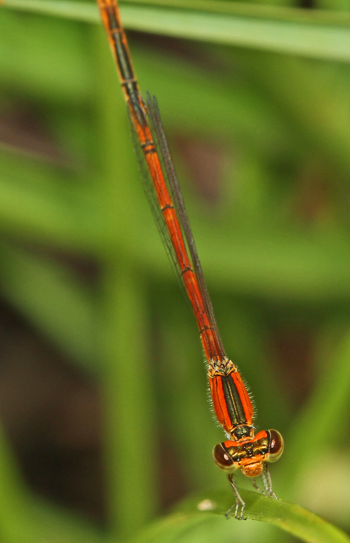 Citrine Forktail (immature female) - Ischnura hastata, Okeefenokee National Wildlife Refuge, Folkston, Georgia. It took me a while to figure out this identification - I think of this species as being yellow or blue. The immatures get me every time.